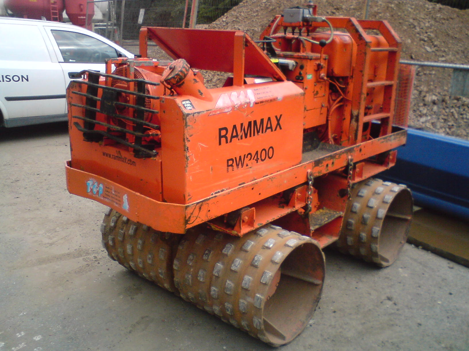 Rammax remote controlled compactor on a construction site